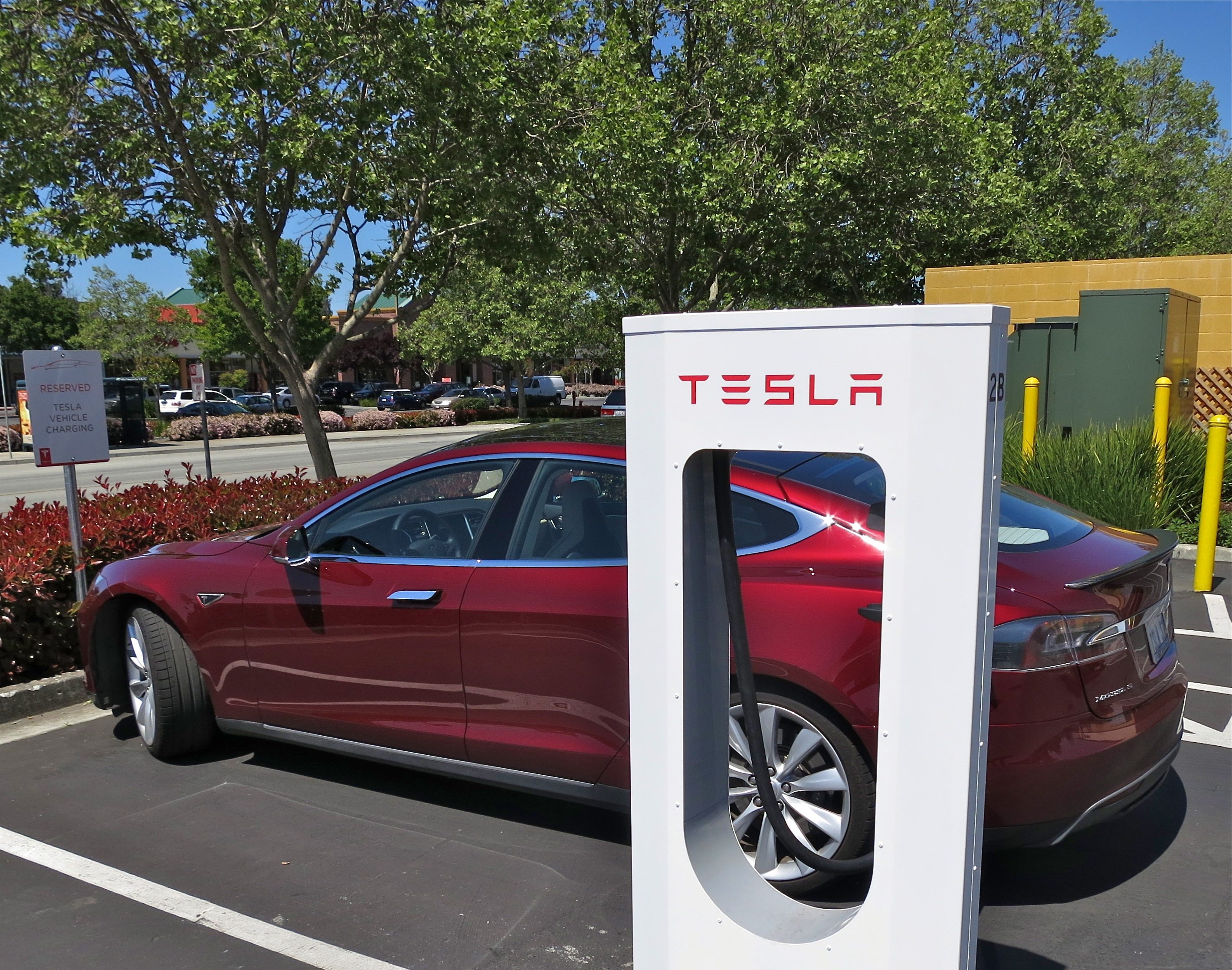 Tesla Model S charging at Gilroy, California, DC rapid-charging station (Supercharger Network).